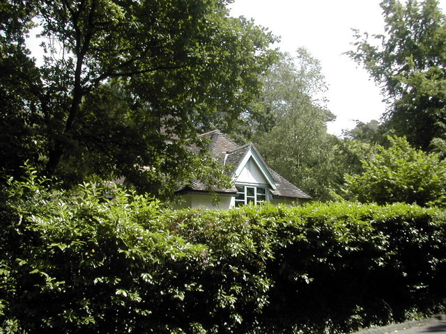 Clouds Hill Clouds Hill from the lane alongside.